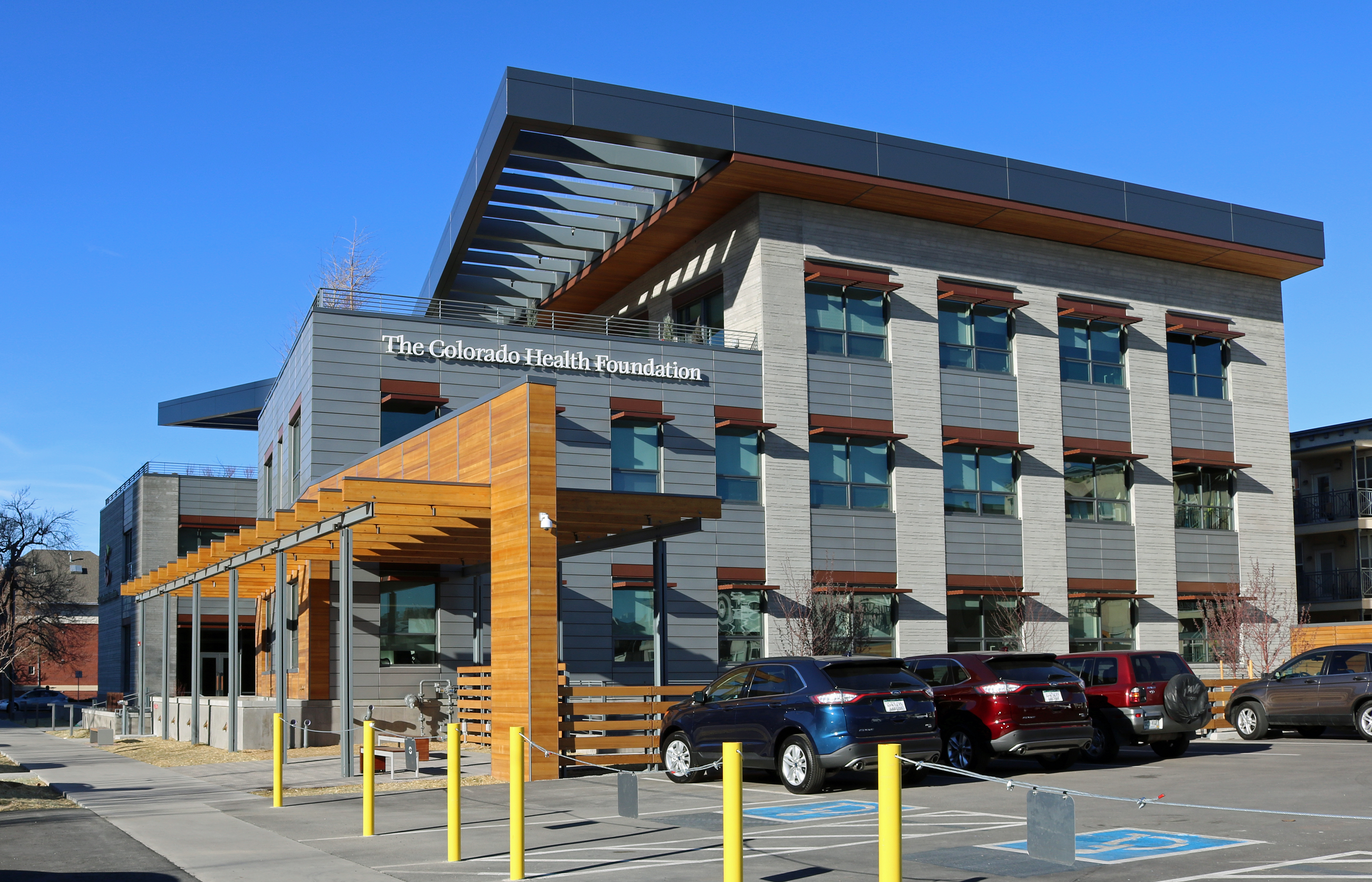 The Colorado Health Foundation headquarters, located at 1780 Pennsylvania Street in Denver, Colorado.